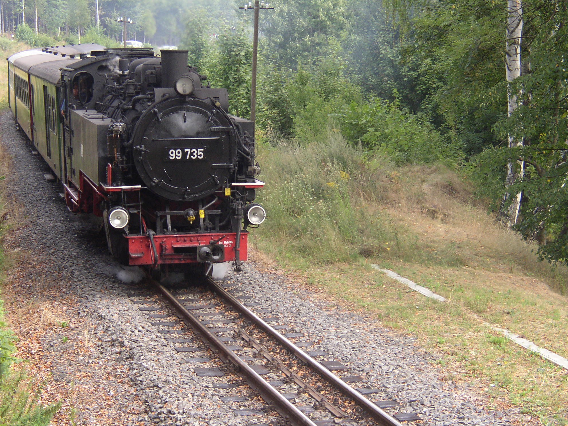 Train of the Zittau-Oybin-Jonsdorf line